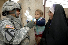 Spc. Deidre Olivas gives a toy to an Iraqi child waiting for medical treatment during a combined medical mission in Quadria, Dec. 7. Spc. Olivas is from Forward Support Troop, 1st Squadron, 7th Cavalry Regiment.